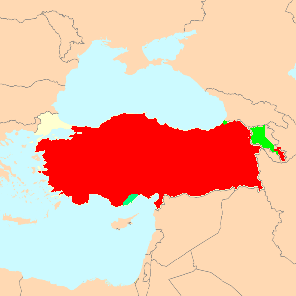 Panthera pardus tulliana map